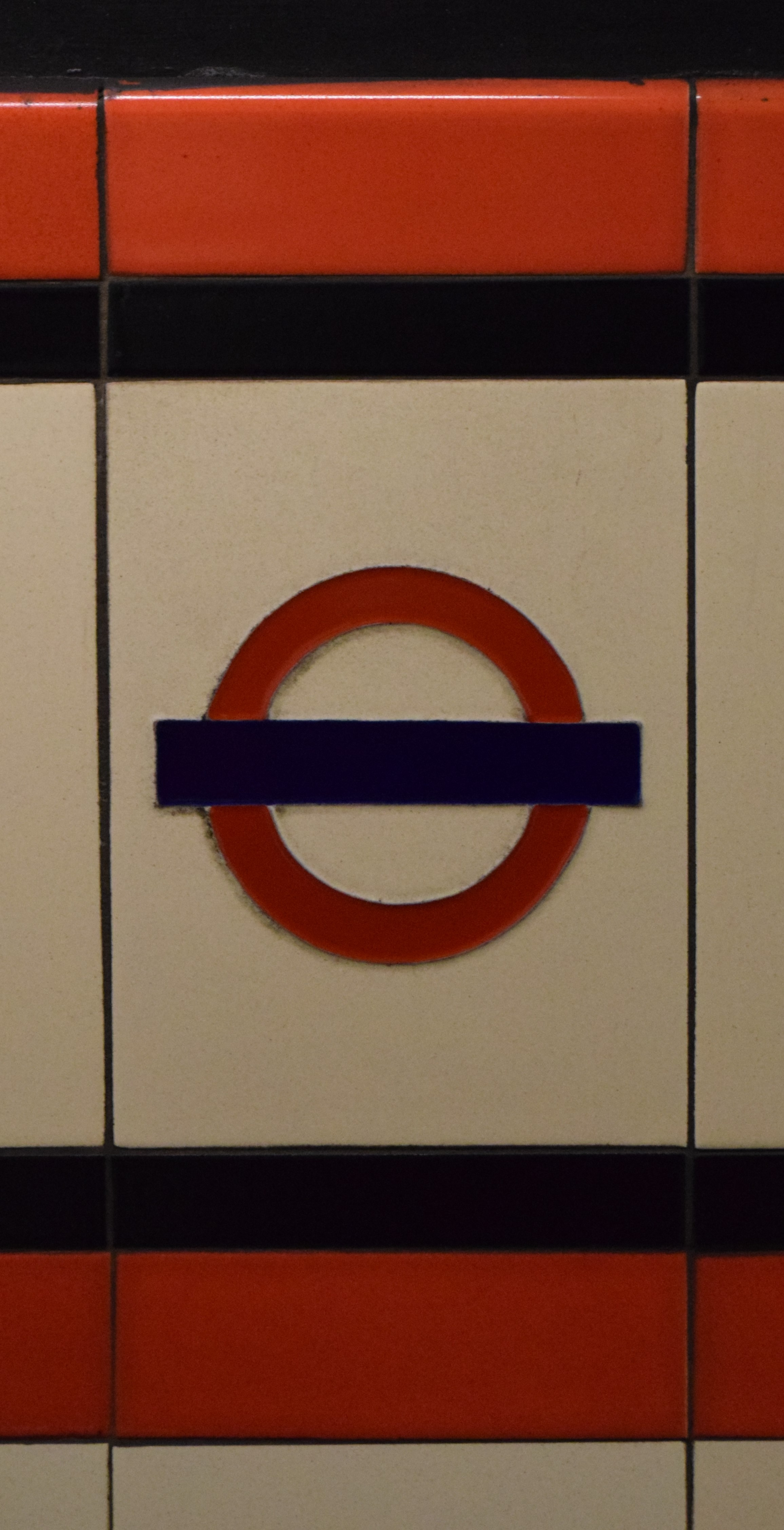 The station (opened 4th December 1946) is an example of the "New Works Programme 1935 – 1940" style adopted by London Transport for its new tube stations. The original tiling was supplied by the Poole Pottery. The 2007 station modernisation program replicated the tiling with several panels of original tiling at platform level retained.